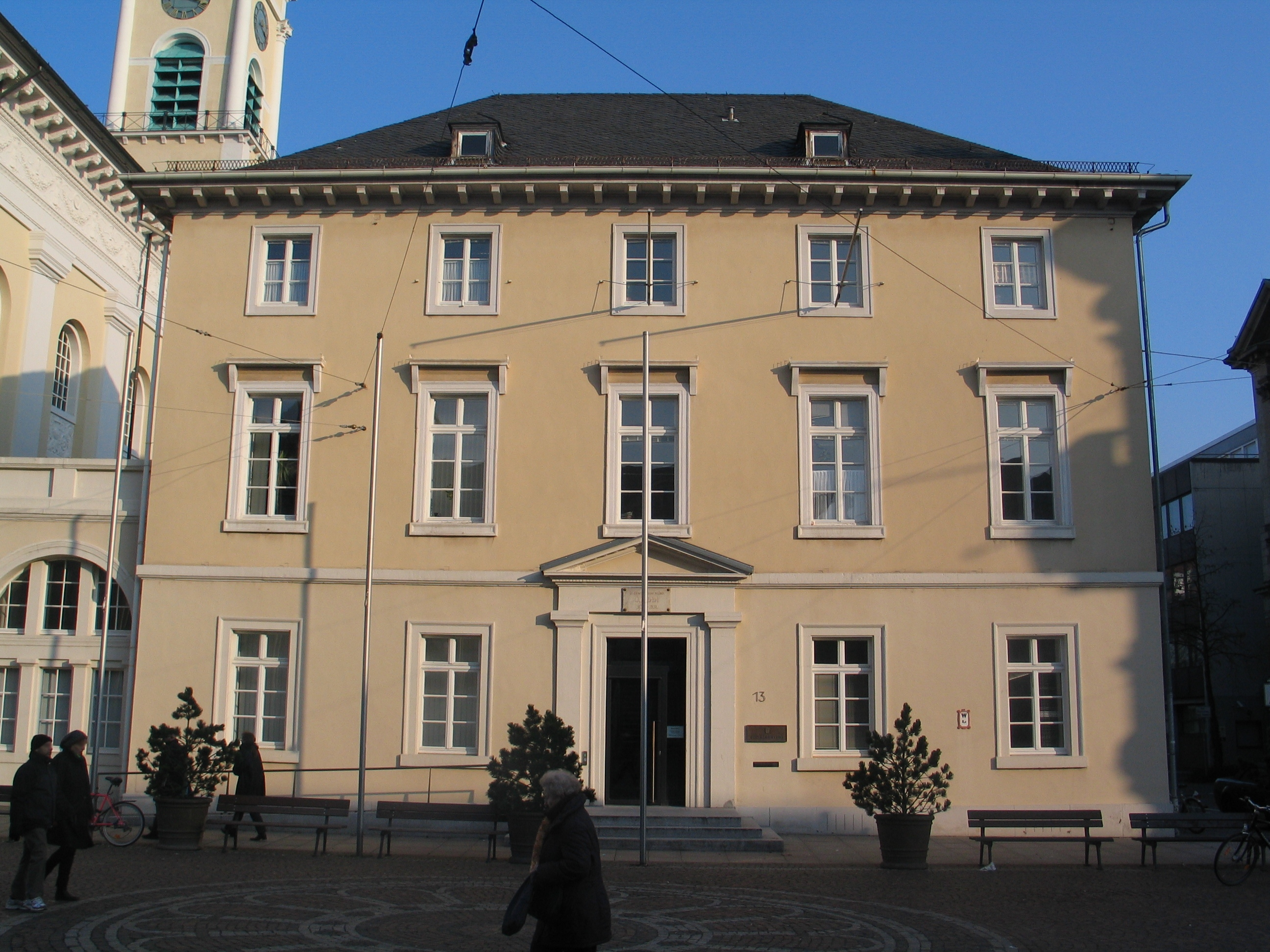 Social court Karlsruhe